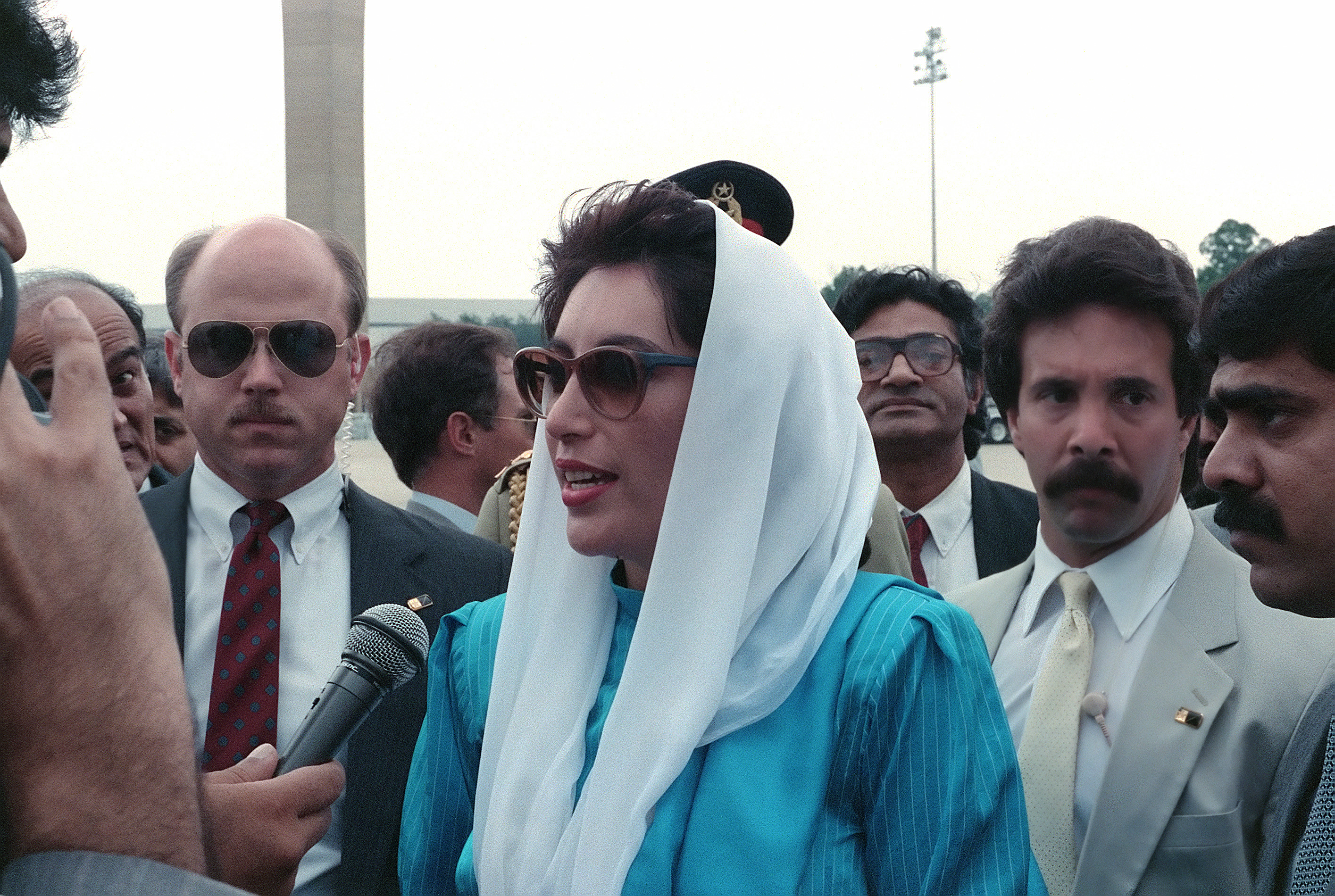 Benazir Bhutto, the Prime Minister of Pakistan, speaks to the press upon her arrival for a state visit at Andrews Air Force Base.